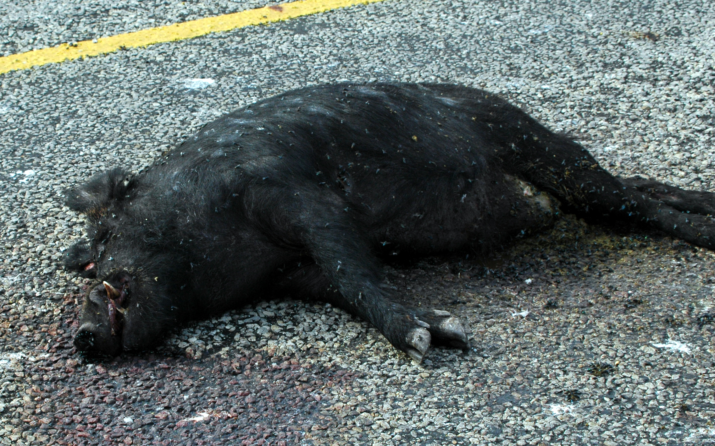 Road kill driving from Rocksprings back into Brackettville on Ranch Road 674. Actually saw numerous feral hog road kills or someone is shooting them and dumping them along the highway?